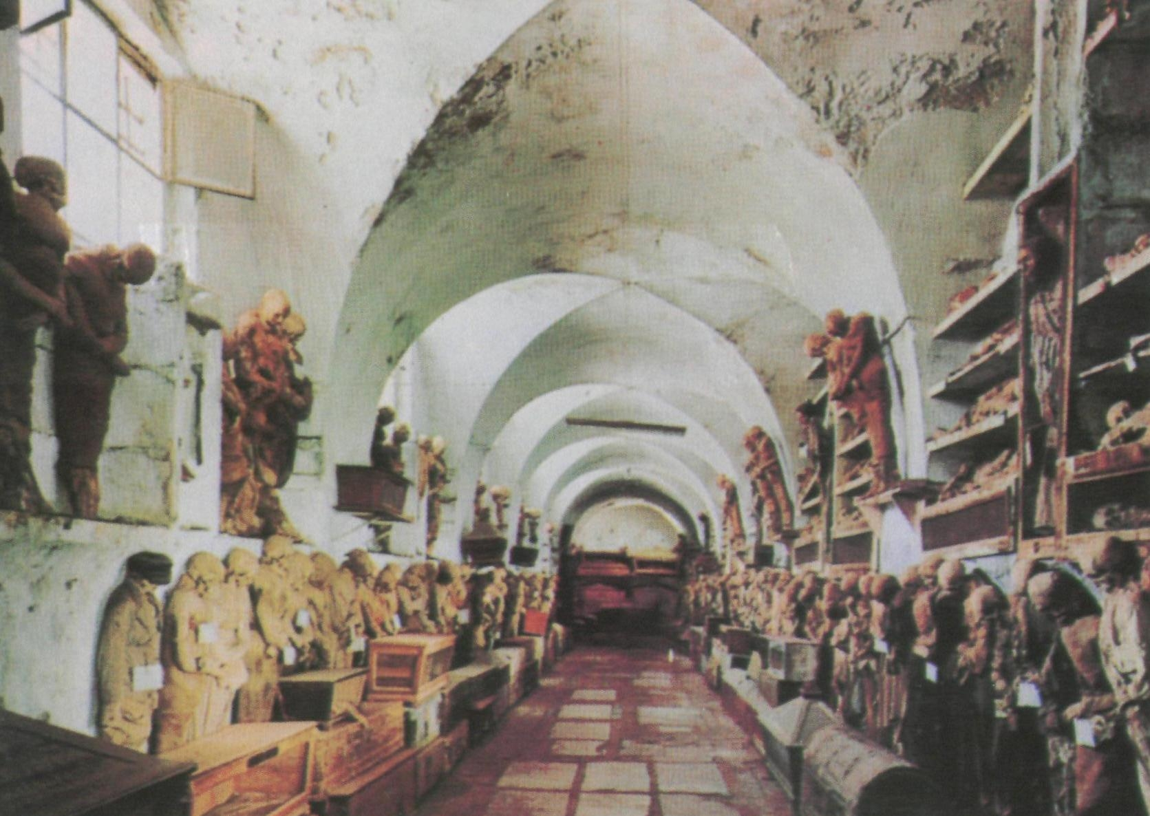 Professionalists' Corridor in Capuchins' Catacombs 1890s Today.